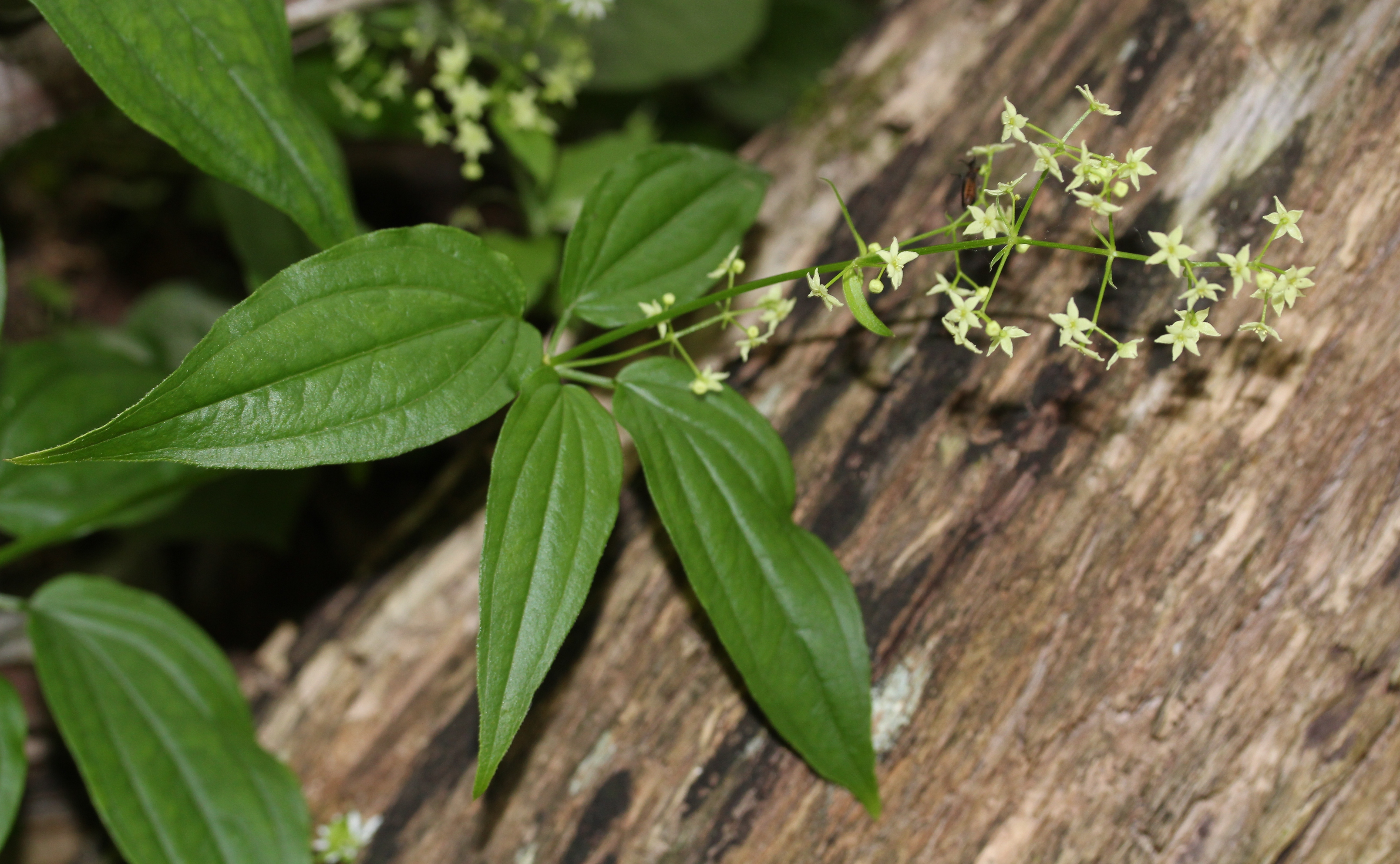 Rubia chinensis f. mitis, in Mount Ibuki, Ibigawa, Gifu prefecture, Japan.